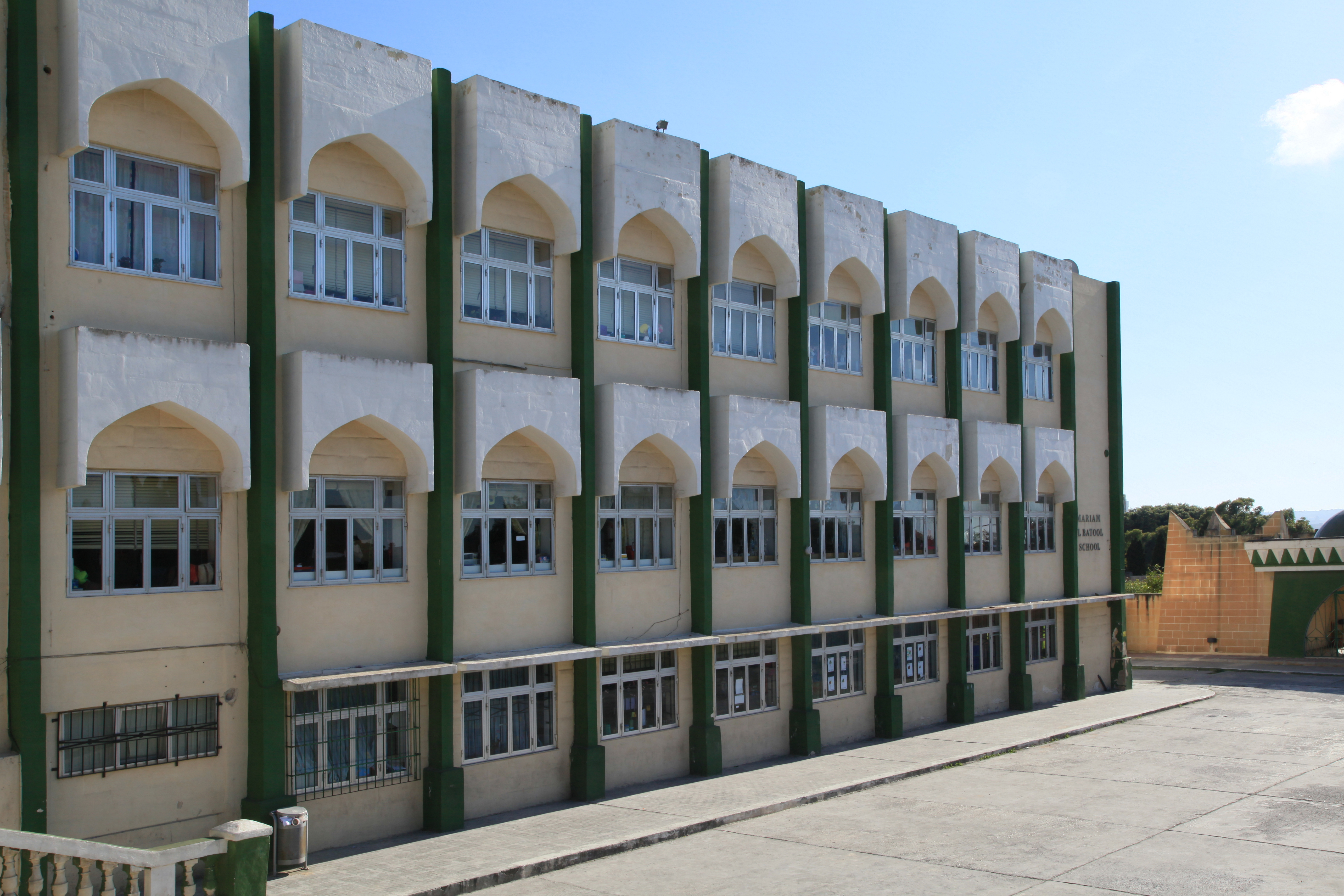 Ċentru Kulturali Islamicu at Triq Kordin in Paola, Malta